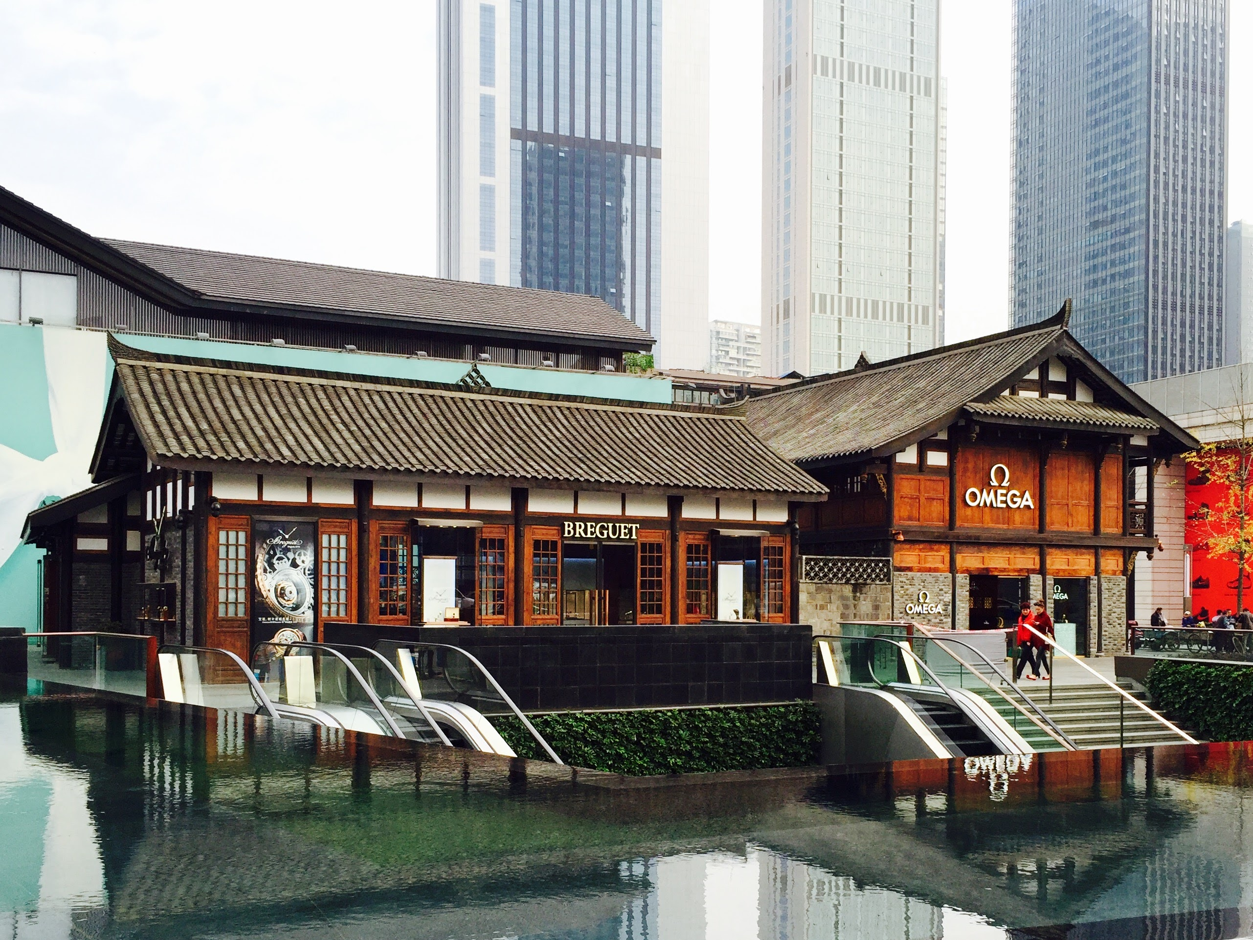 Xinlu, a historical building near Chengdu's Daci Temple